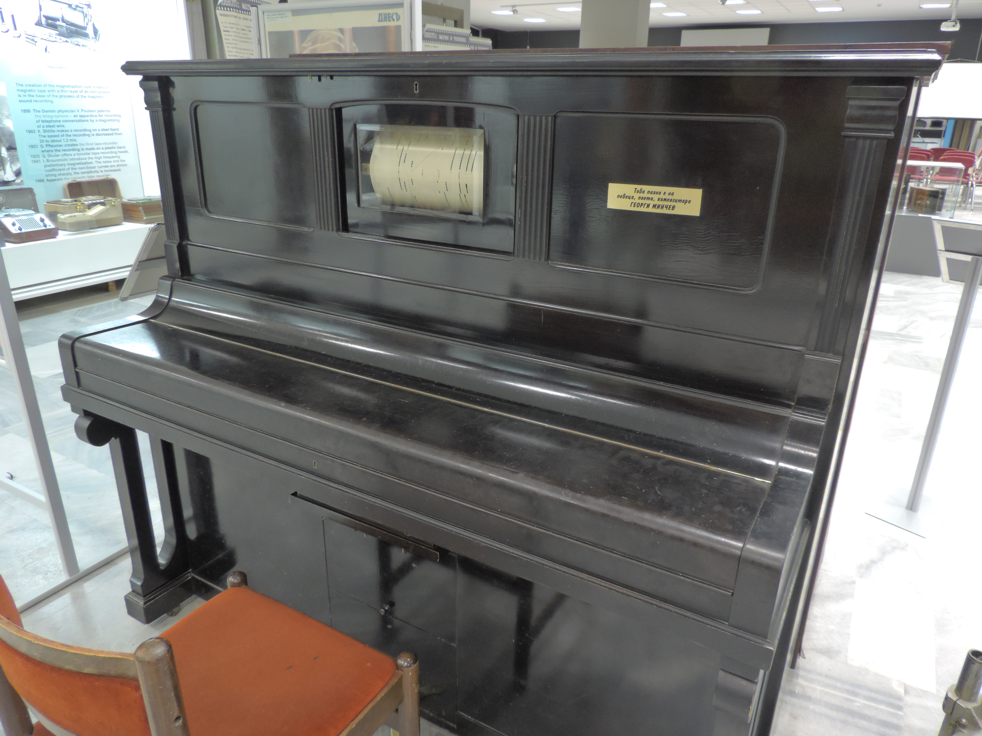 The mechnical piano of Bulgarian musician Georgi Minchev. Exhibited at the National Polytechnic Museum, Sofia.